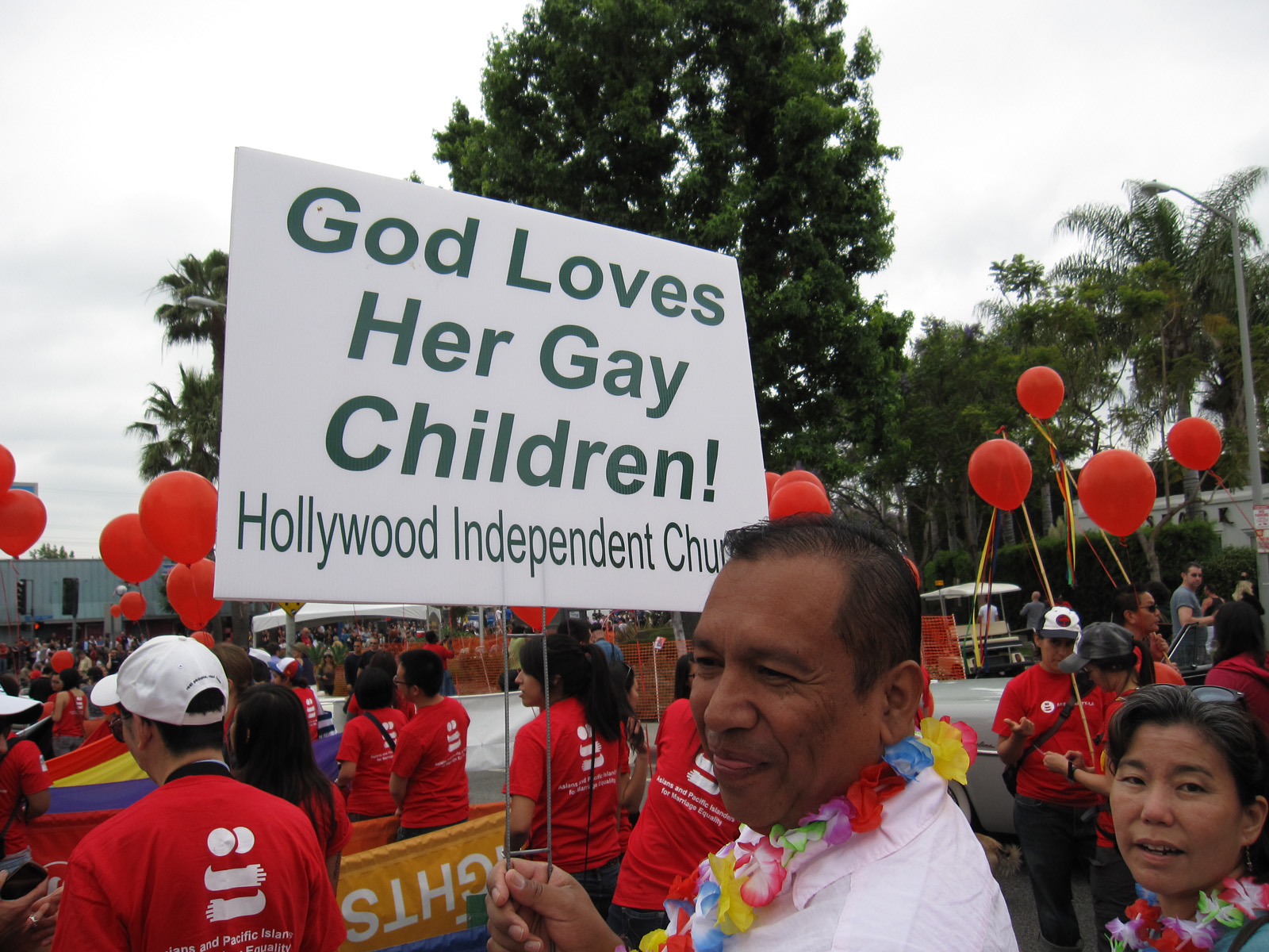 For the 2011 Los Angeles Pride, I marched with a pan-Asian delegation, to show my support for LGBT rights in Asian communities of Southern California. I fully approve of and endorse this message, carried by a member of Asian/Pacific Islander PFLAG!